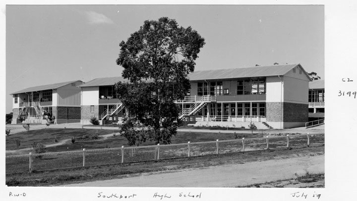 Southport State High School - Gold Coast. (Original photo caption makes reference to Public Works Department)